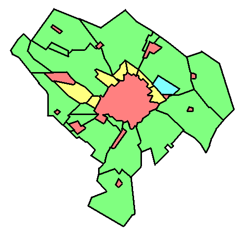 The map of the city of Kecskemét, Hungary. Colours help to reveal the current status of the areas